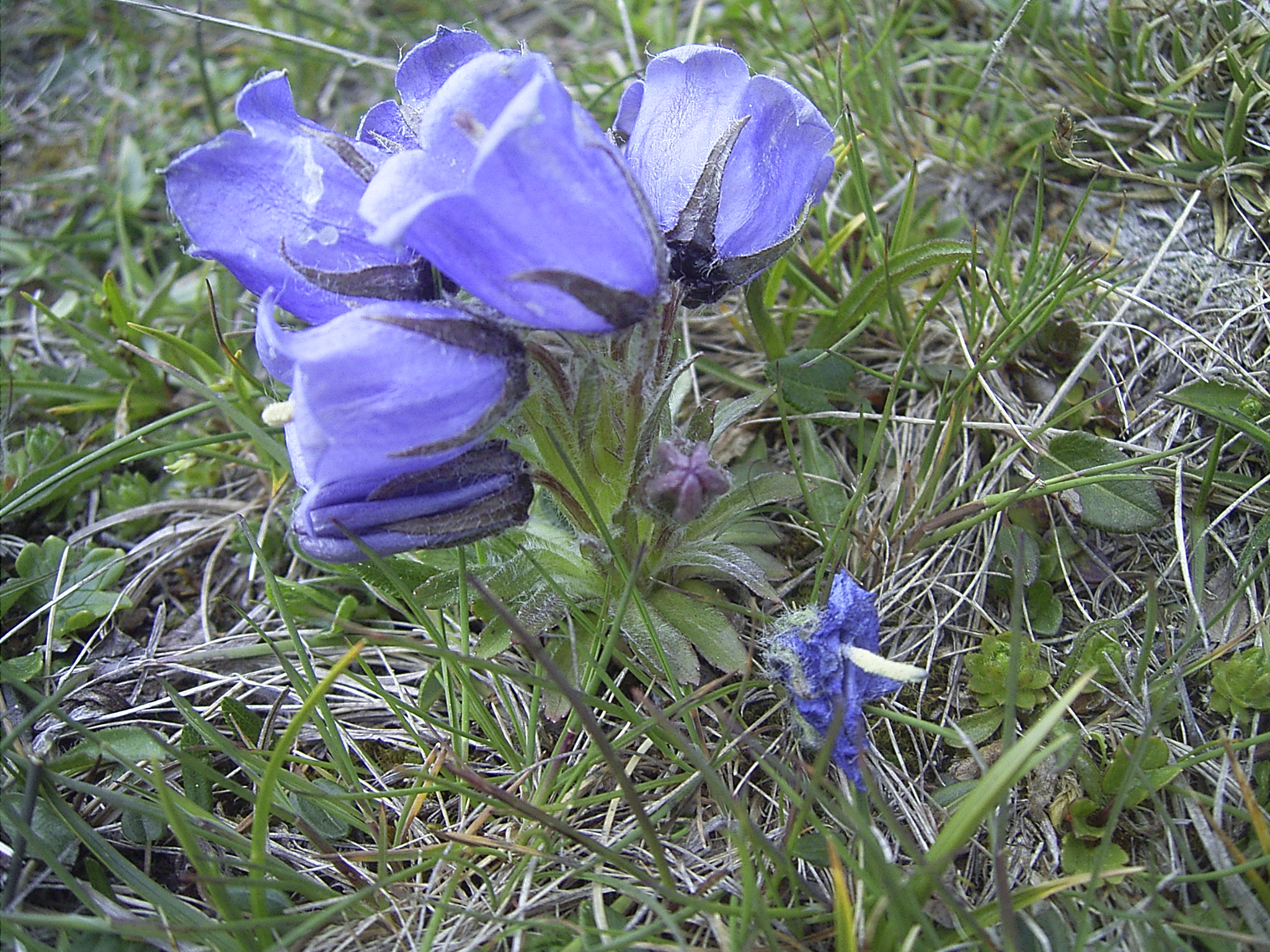 Campanula alpina, June 2006, at the Rax in Austria